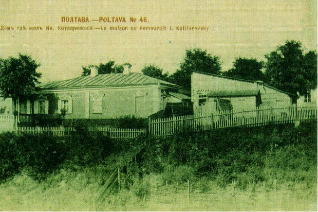 Poltava. The house where he lived, Ivan Kotlyarevsky